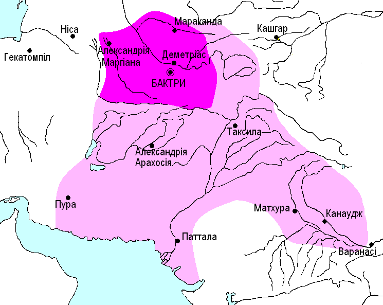 Map of Bactrian Kingdom (ukrainian)